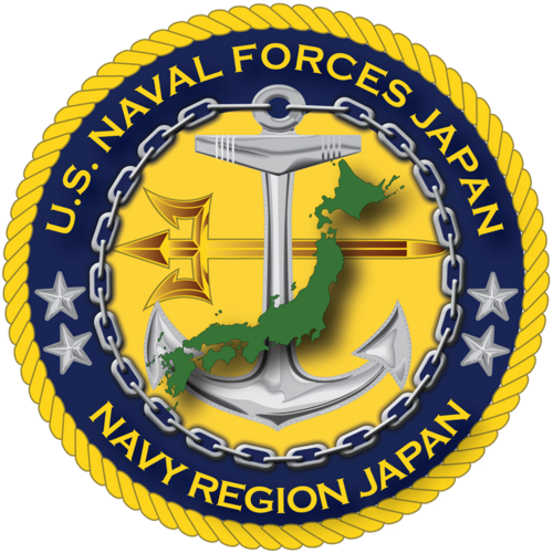 Insignia/logo/emblem of Commander, Navy Region Japan & Commander, U.S. Naval Forces Japan